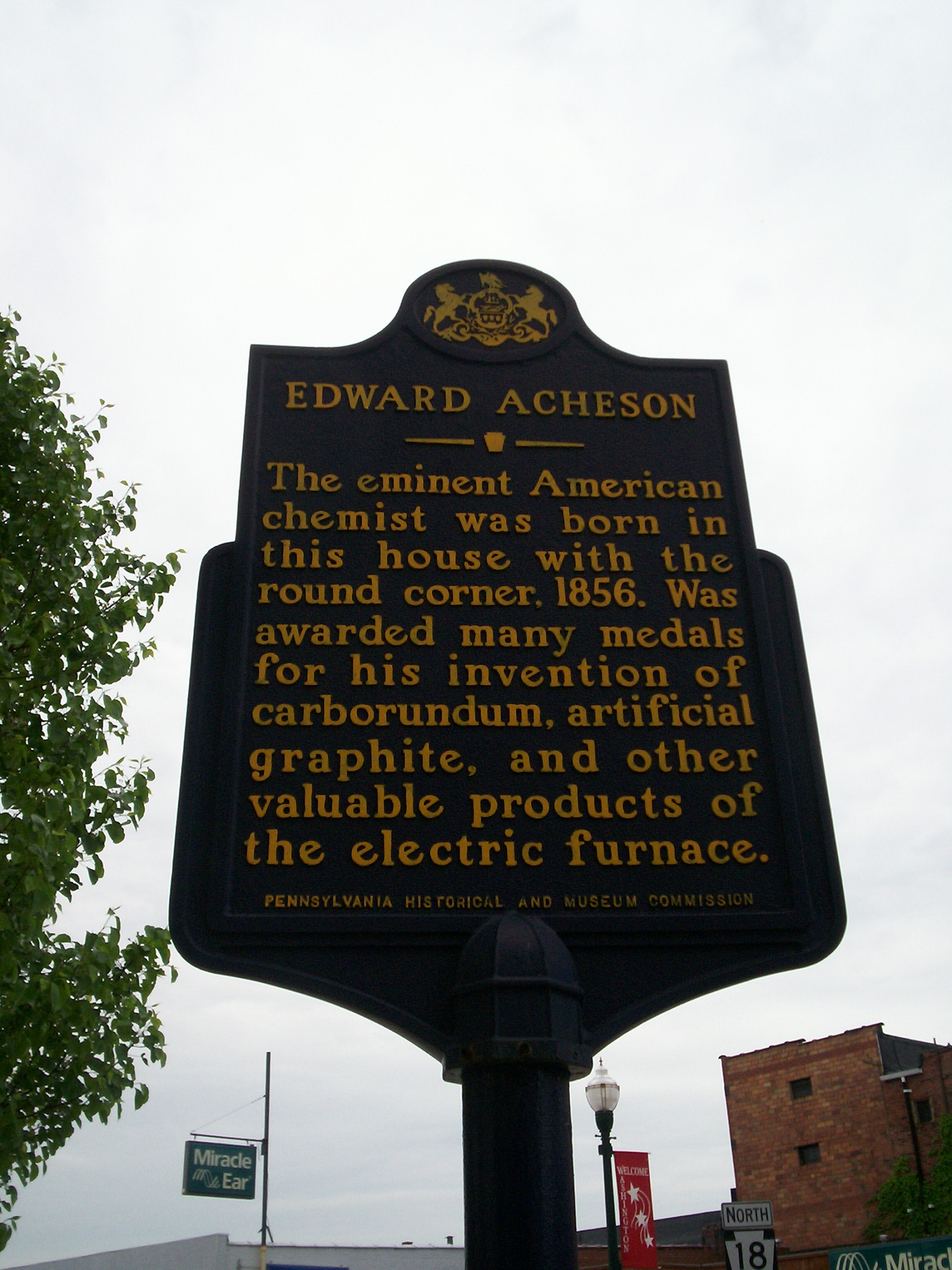 Pennsylvania historical marker representing the birthplace of American chemist Edward Acheson.